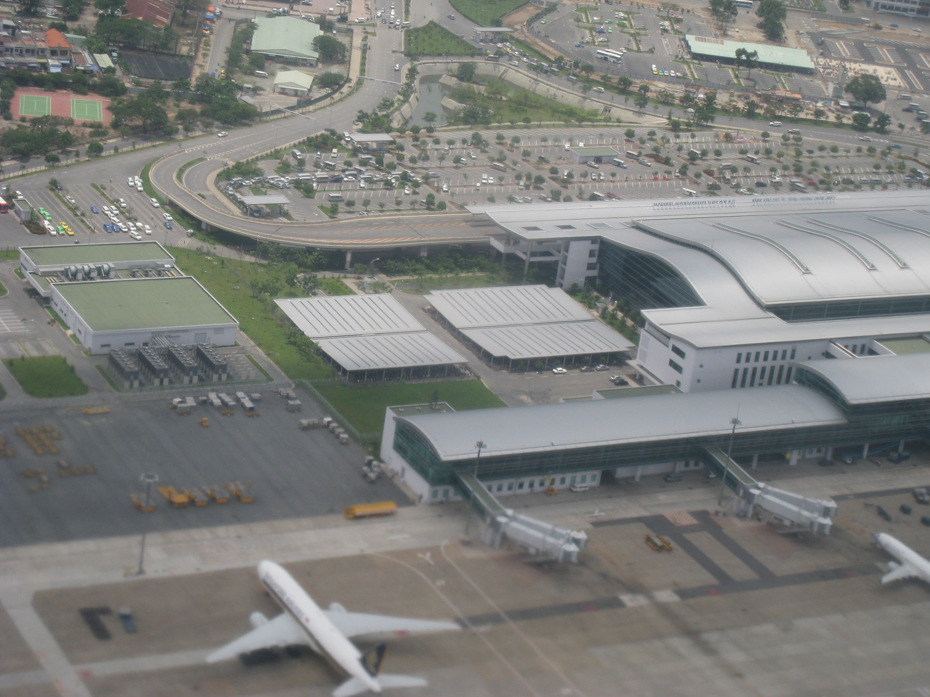 Tan Son Nhat Airport, Saigon, Vietnam